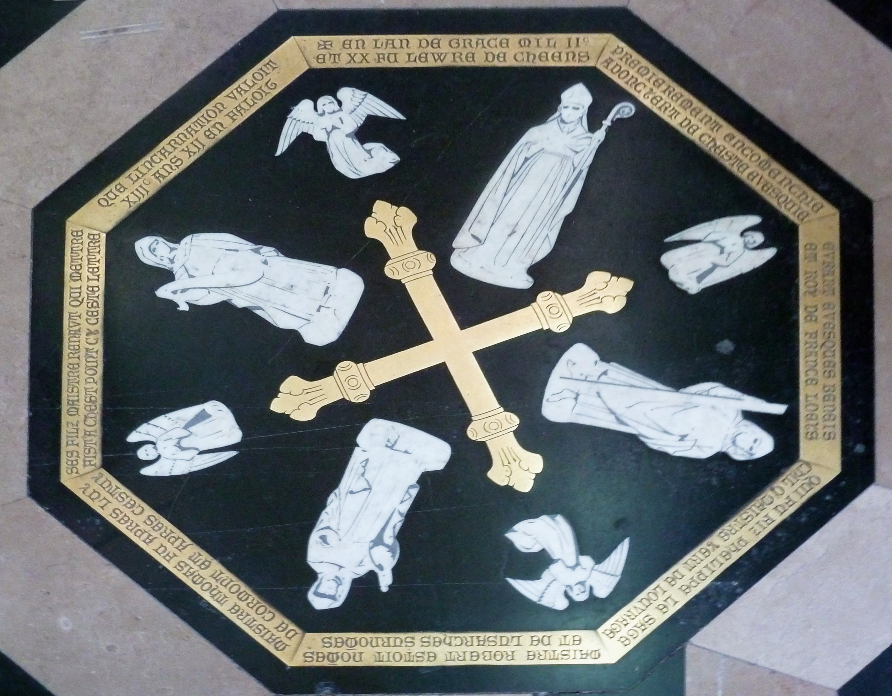 The central stone of the Cathedral of Amiens Labyrinth. Somme (département), France